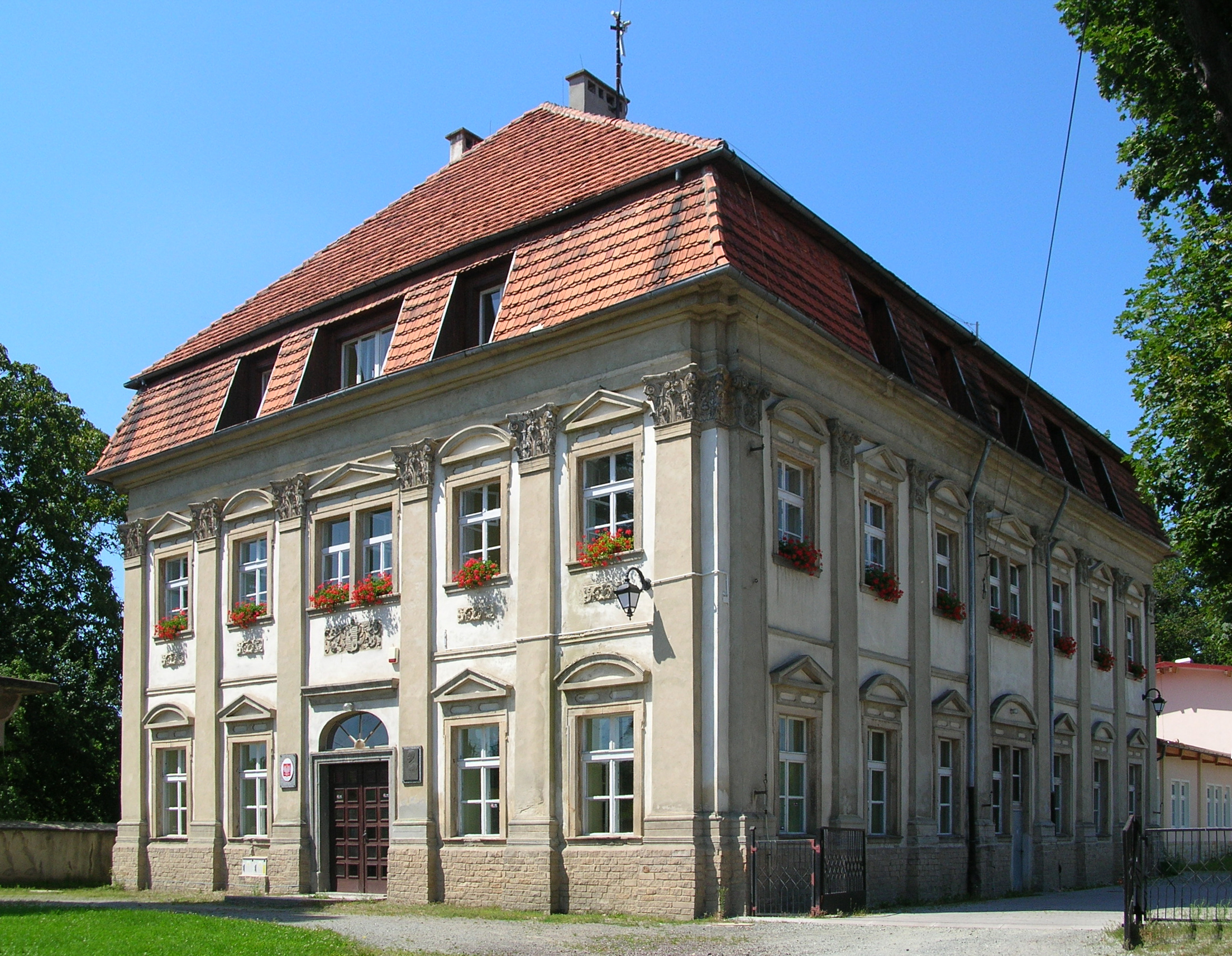 Palace in Budzów